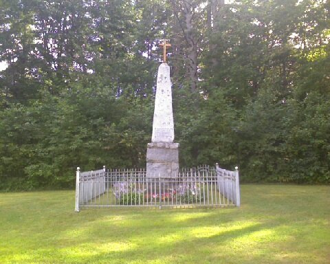 Photograph of the Sebastian Rasle (Rale) monument at his burial site in Saint Sebastian Cemetery, on Father Rasle Road, Madison, Maine. August 20, 2009.